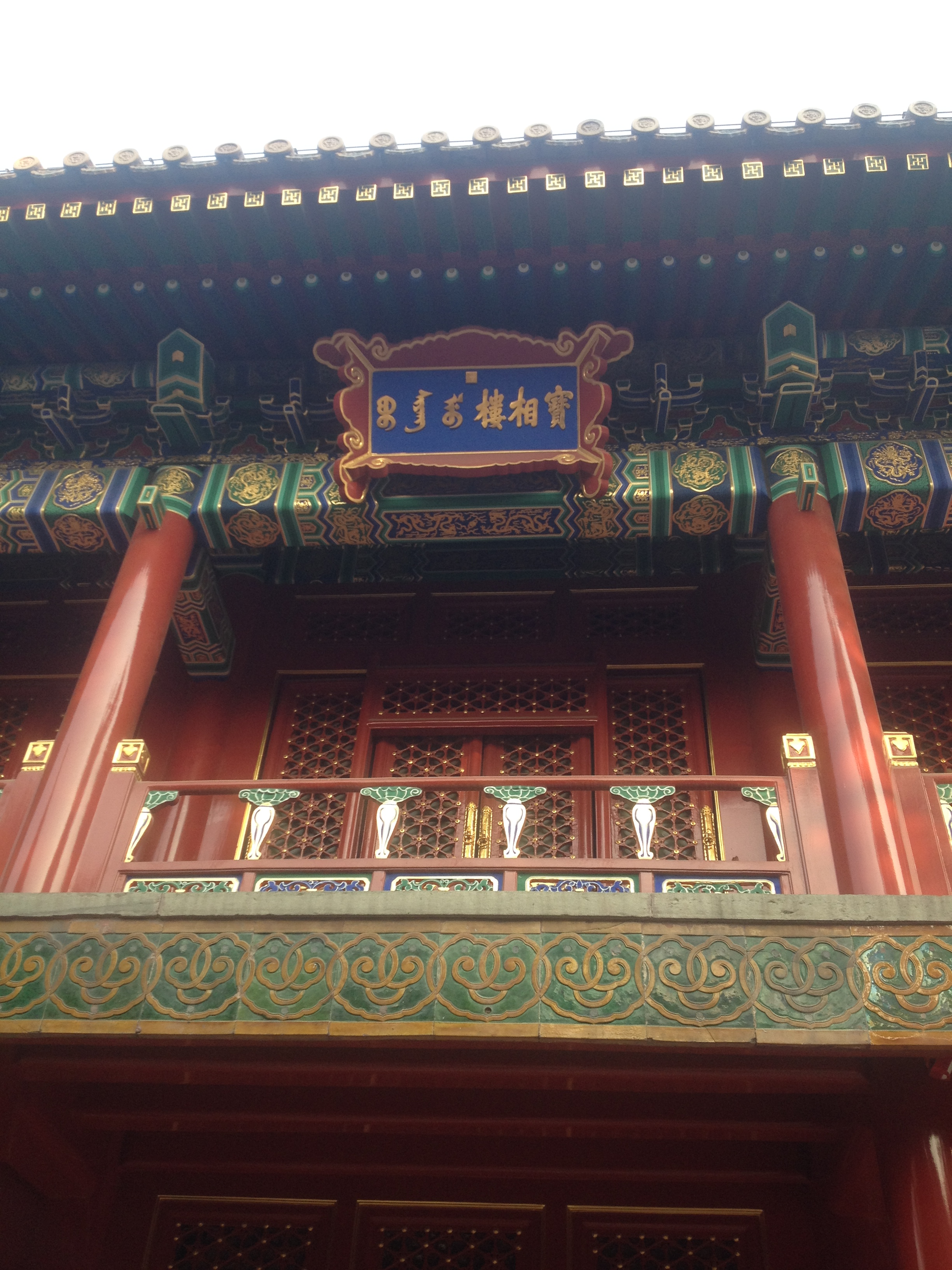 北京故宫中的宝相楼